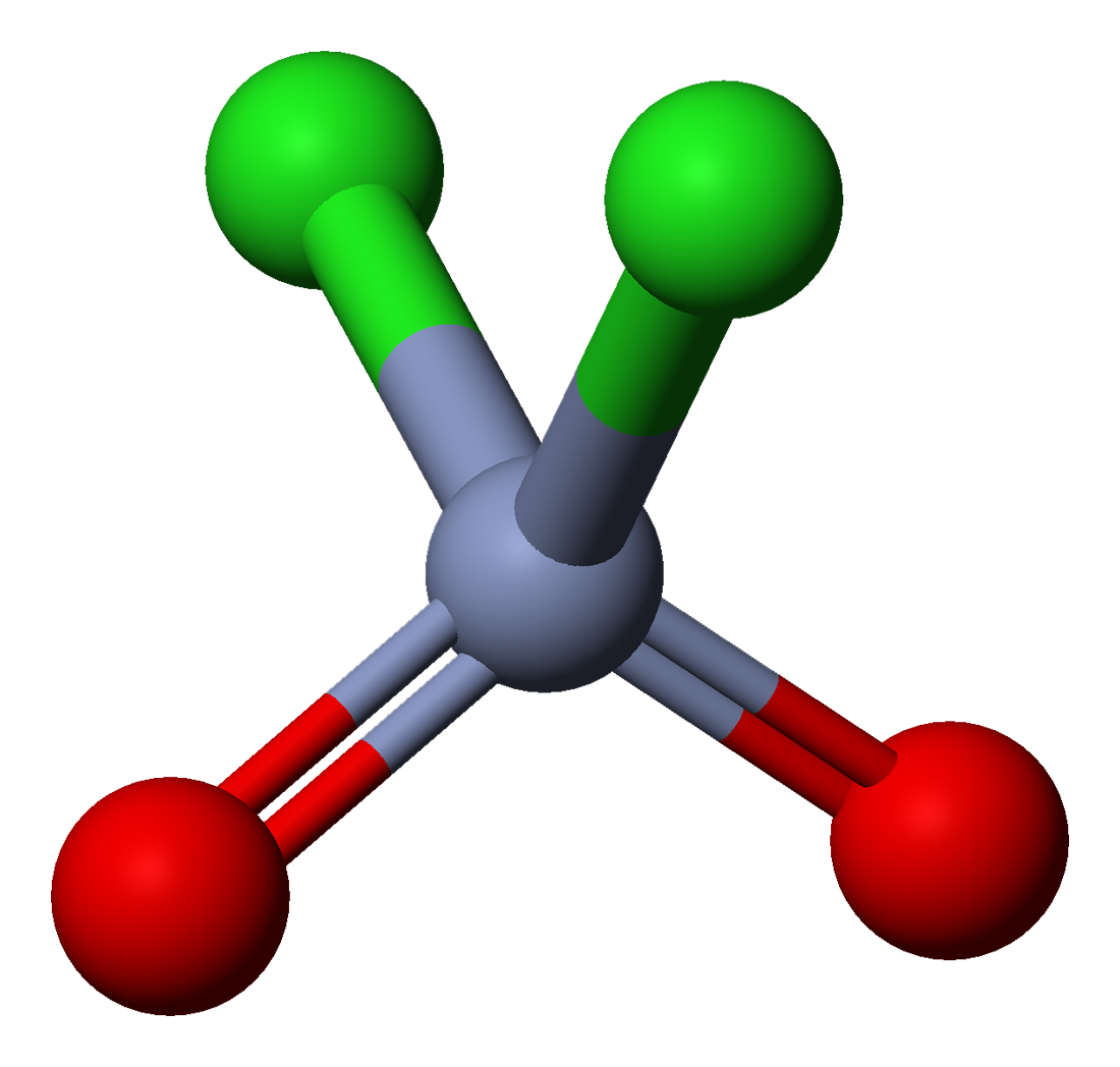 Ball-and-stick model of the chromyl chloride molecule, CrO2Cl2